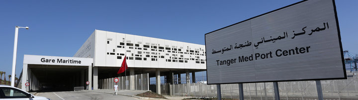 Nouvelle Gare maritime du port Tanger Med